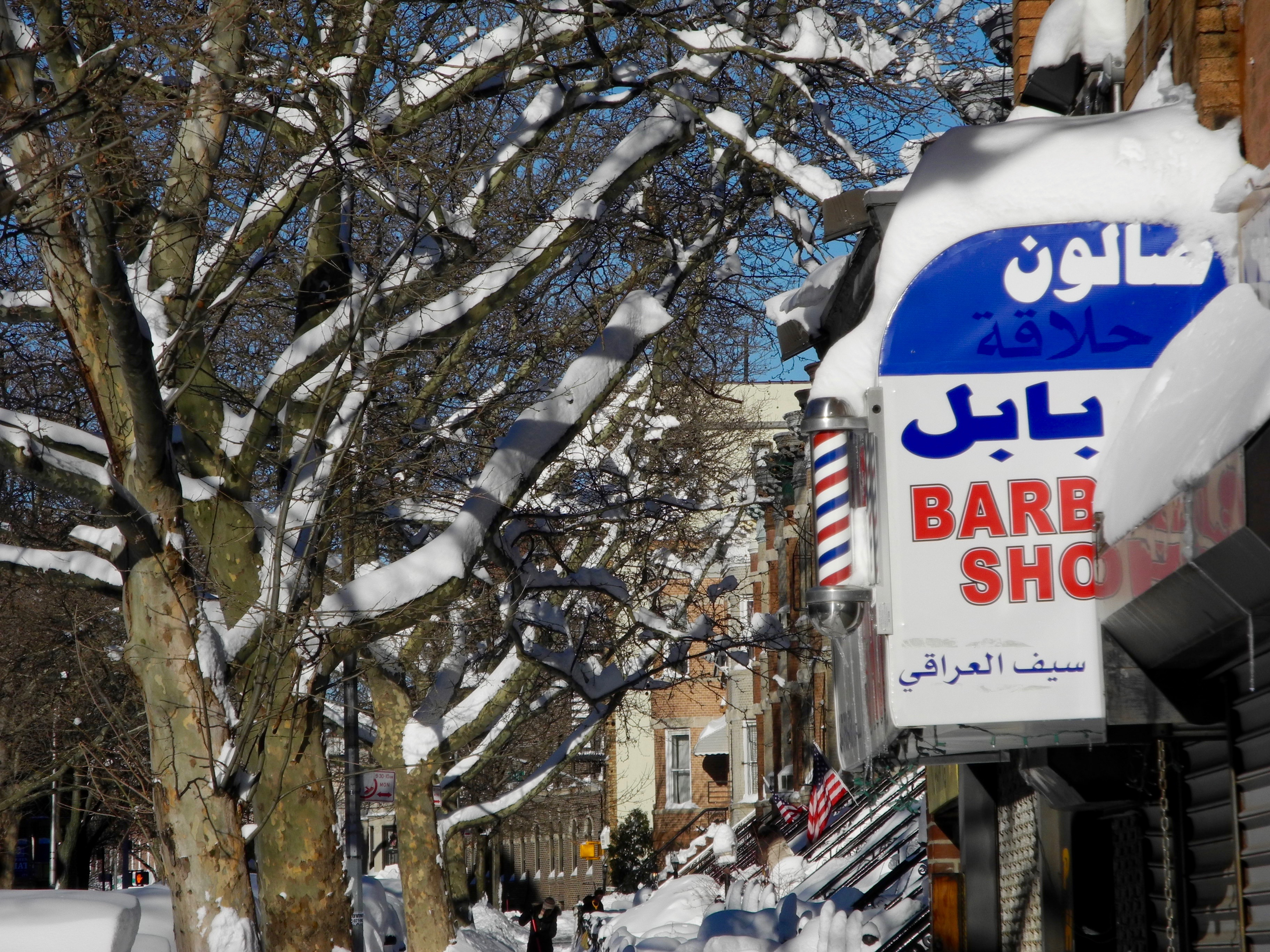 More recently, Bay Ridge has become home to a large Arabic-speaking population, as reflected on the awning of the Babil Barber Shop.